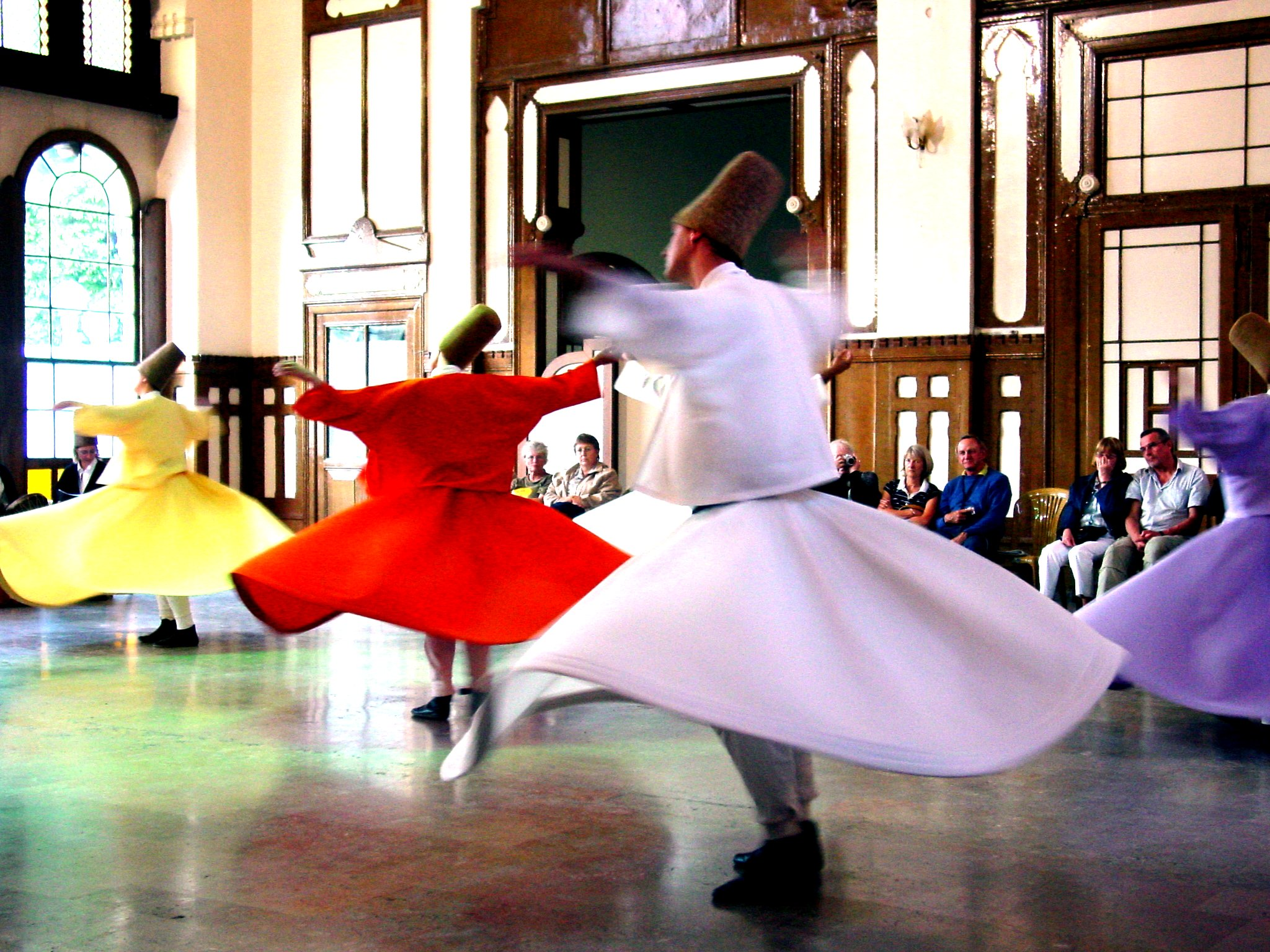 Followers of the Sufi Mysticism. Two different groups give concerts at the Sirkeci Railway Station in Istanbul on different days of the week. One hour session starts with a Sufi concert and is followed by the ceremony called Sema.